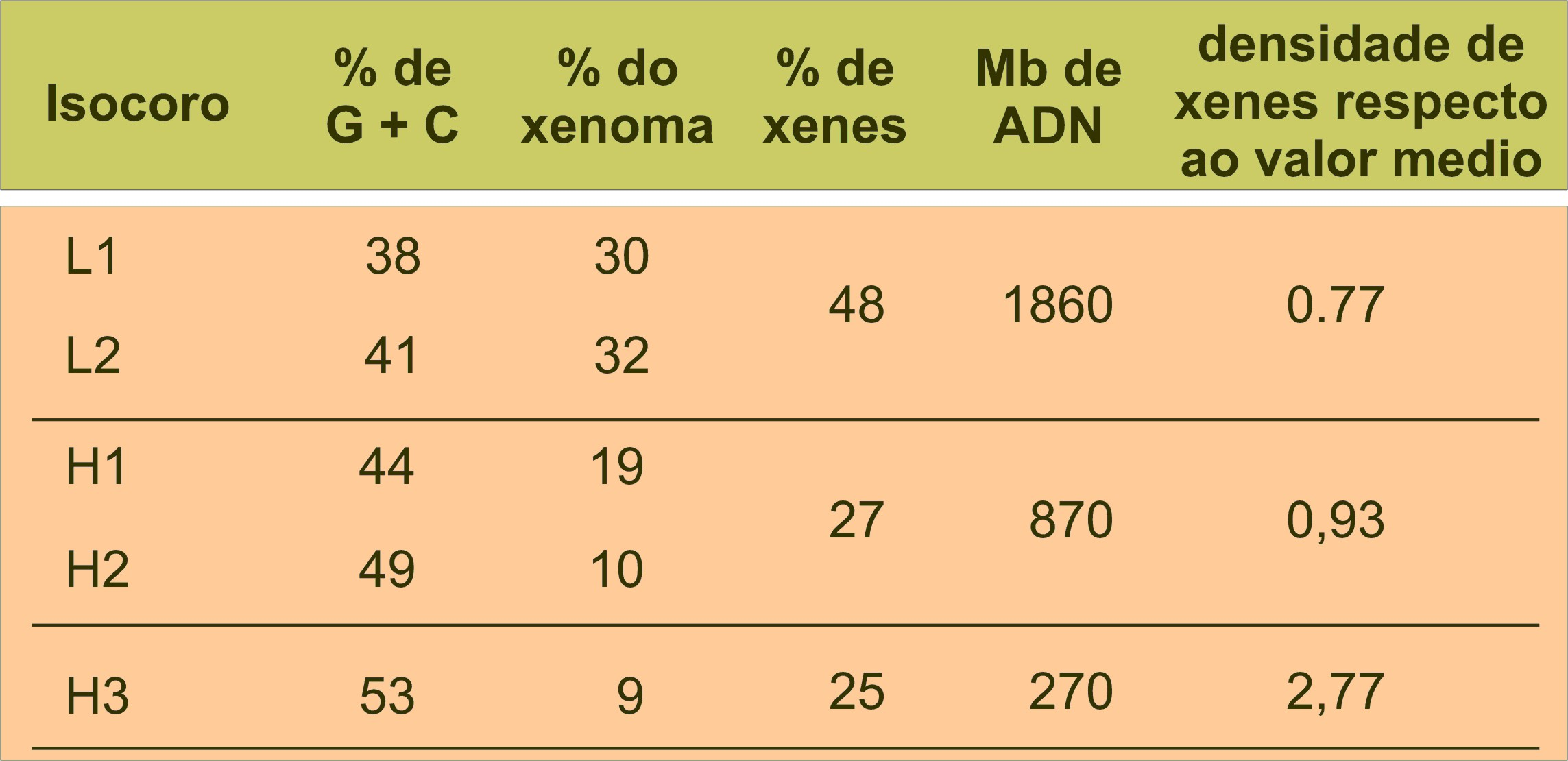 isochores data